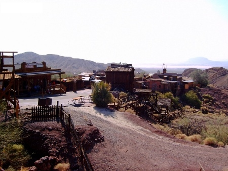 Calico (Geisterstadt), Kalifornien Calico Ghost Town, California